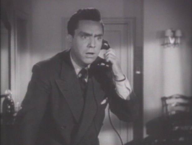 Cropped screenshot of Edmond O'Brien from the film D.O.A. (1950).